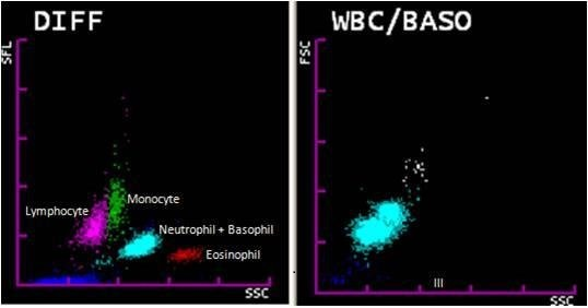 Labelled WBC scattergram from Sysmex automated hematology analyzer. Other information From Hasaf Mubeen, Kolakkadan & Wilfred Devadoss, Clement & Aarathi Rangan, Rau & Gitanjali, Monnappa & Prasanna, Shetty & Sunitha, Vp. (2014). Automated Hematology Analyzers in Diagnosis of Plasmodium vivax Malaria: an Adjunct to Conventional Microscopy. Mediterranean journal of hematology and infectious diseases. 6. e2014034. 10.4084/MJHID.2014.034.